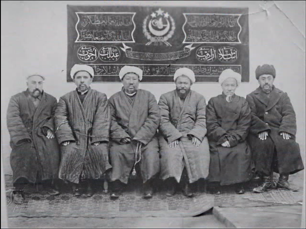 TIRET government officials 1933